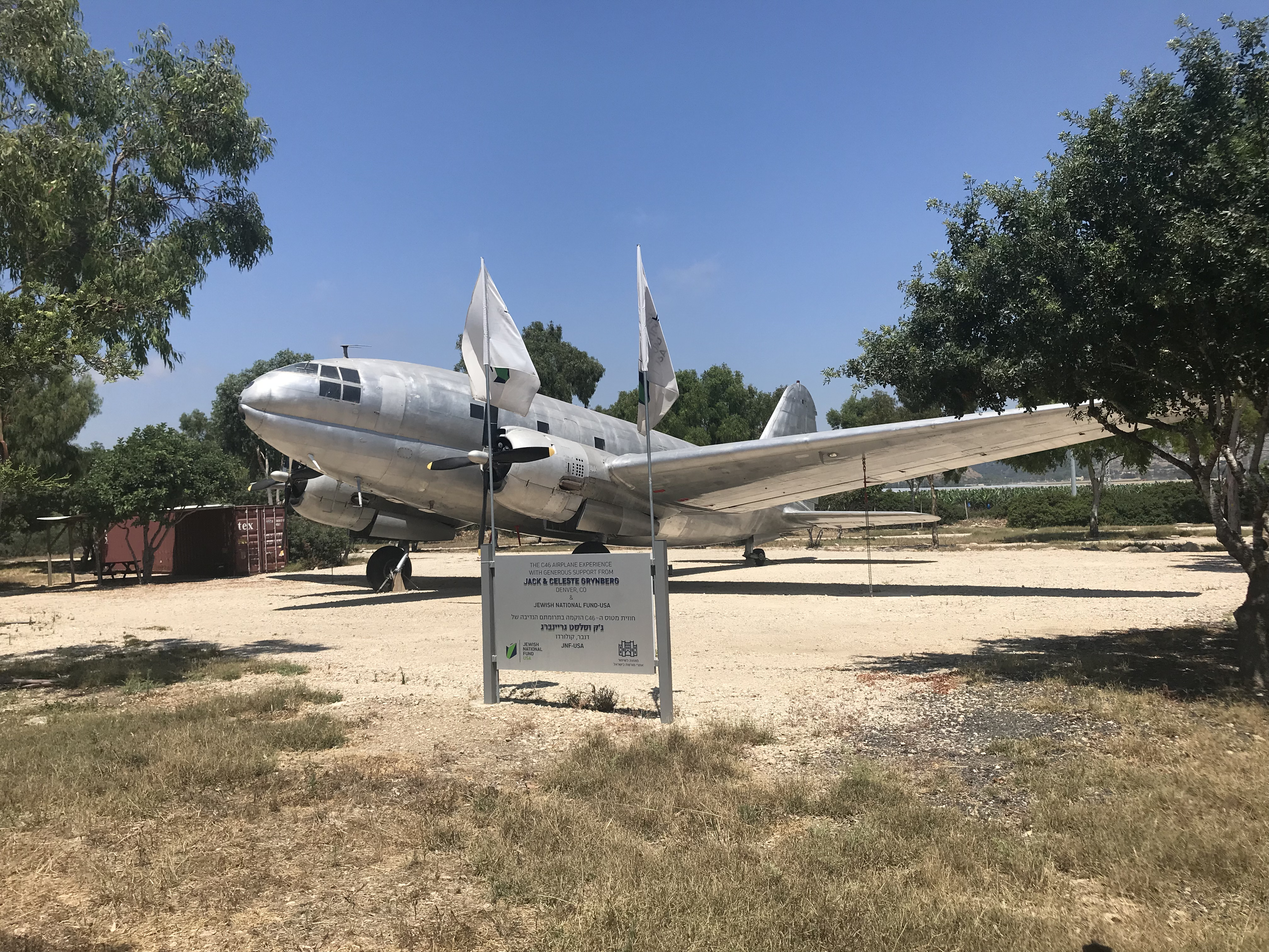 A C-46 Commando on static display at Atlit Detention Camp in Atlit, Israel.